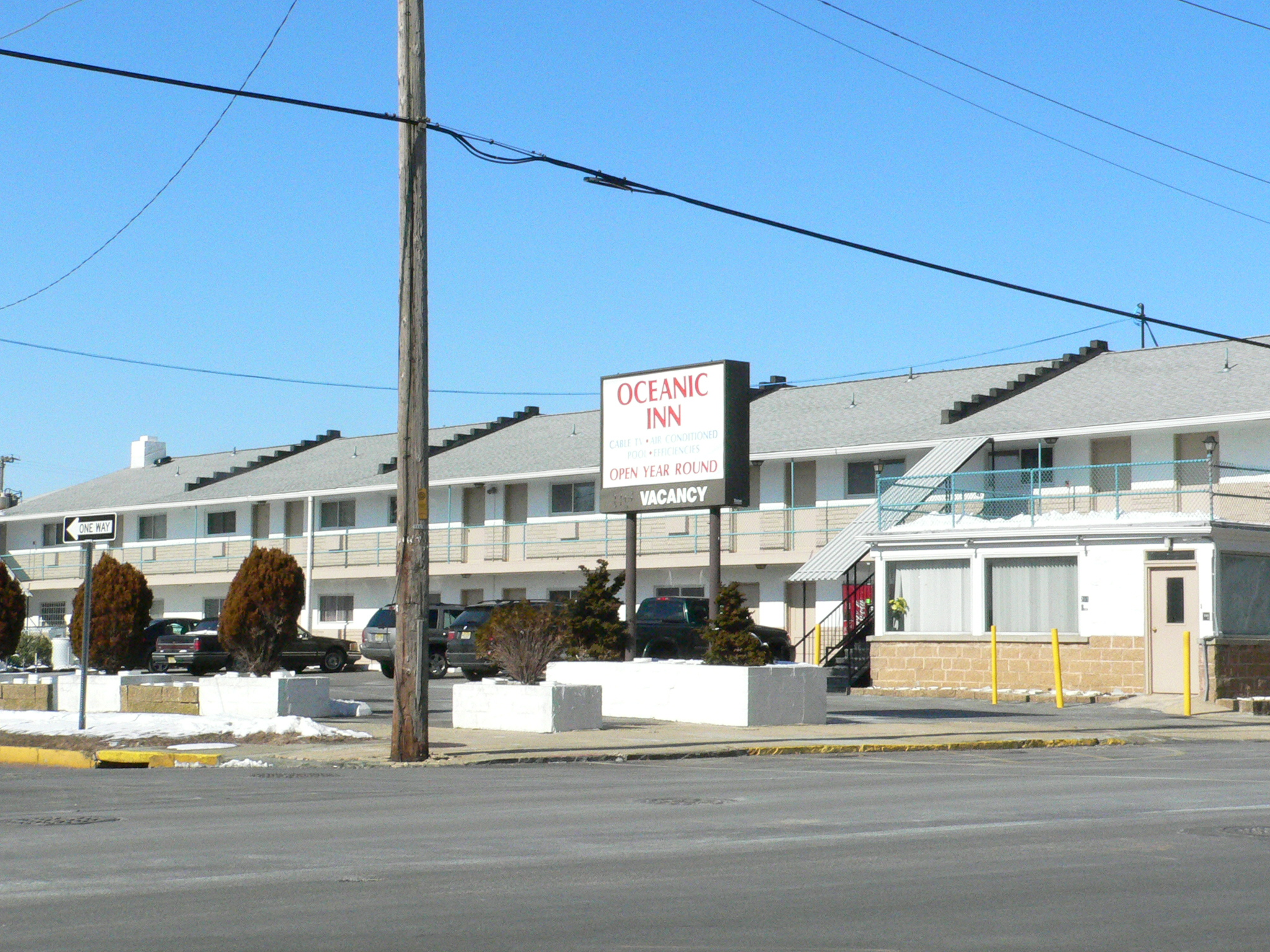 The Oceannic Inn, a motel in Asbury Park, New Jersey.